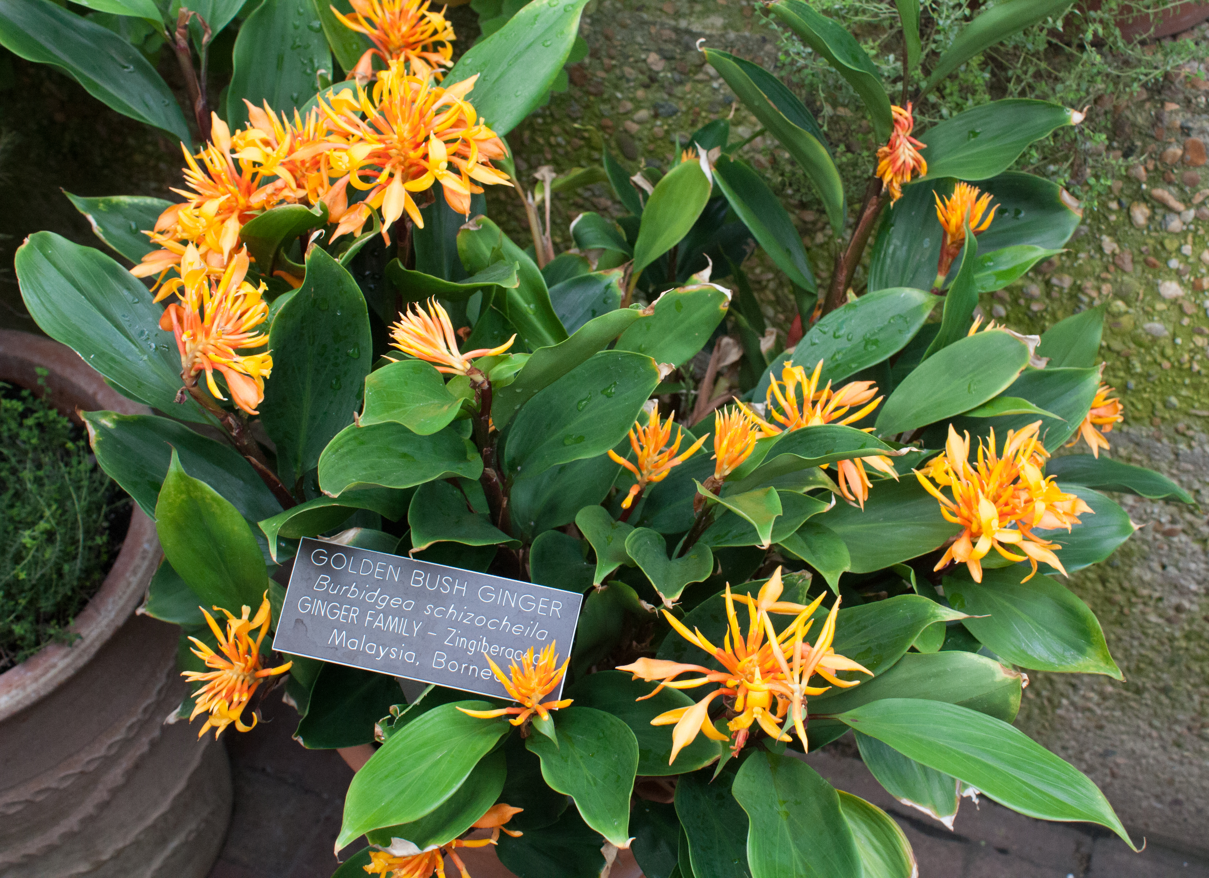 Golden Brush Ginger (Burbidgea schizocheila) photographed at the US Botanic Gardens